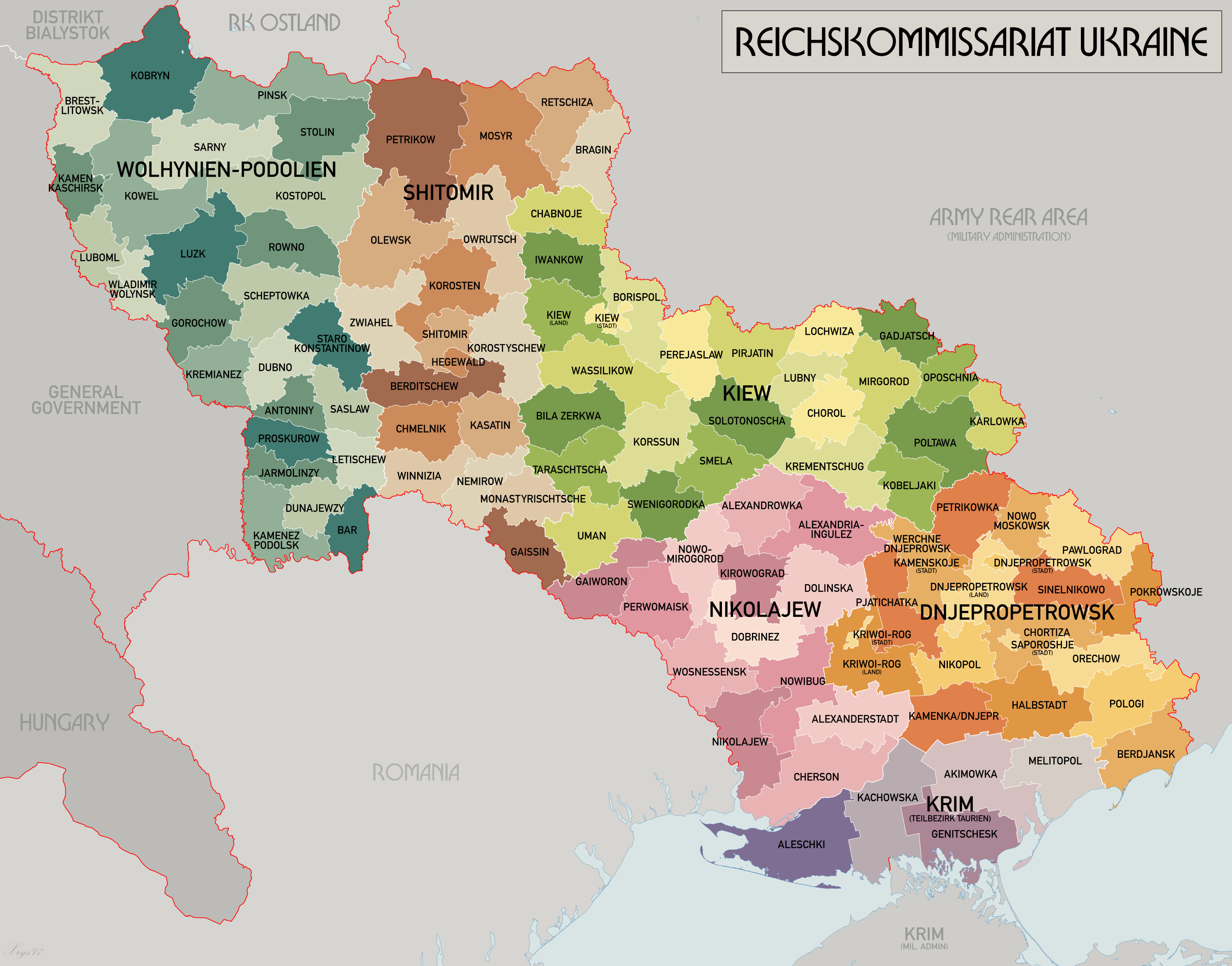 An administrative map of the Reichskommissariat Ukraine. Shows the boundaries of the Generalbezirke and Kreisgebiete as of September 1943.